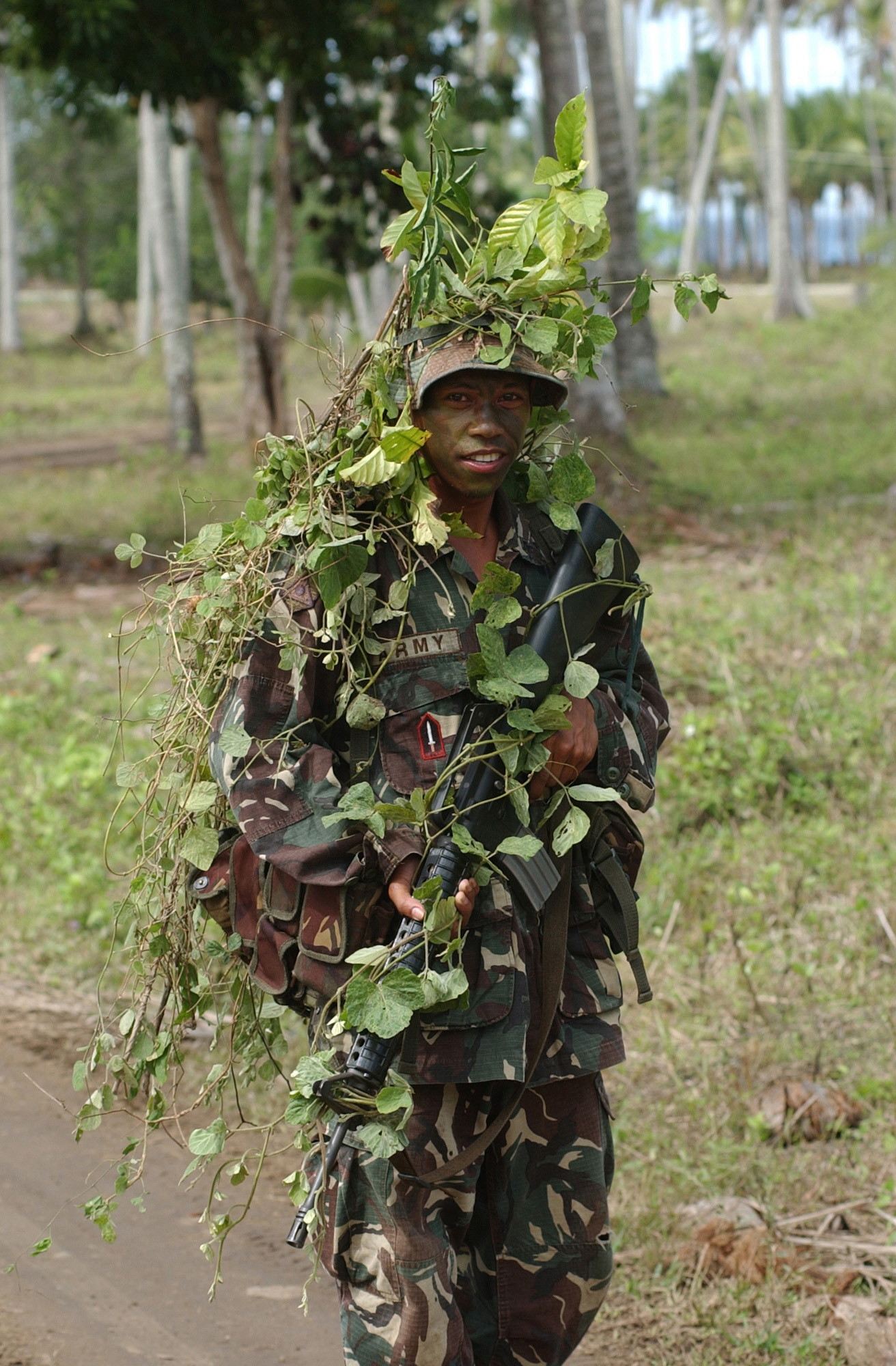 Zamboanga, Republic of the Philippines (Mar. 21, 2003) -- A member of the Armed Forces Philippines (AFP) demonstrates skills learned from U.S. Army Special Forces during a field exercise. This ‘Security Assistance Training’ is being held on the Zamboanga Peninsula by the Joint Special Operations Task Force-Philippines (JSOTF-P) as a continuing part of Operation Enduring Freedom and America’s effort to train, assist, and advise Philippine forces in order to refine their counter-terrorism capabilities. U.S. Navy photo by Photographer’s Mate 1st Class Edward G. Martens. (RELEASED)